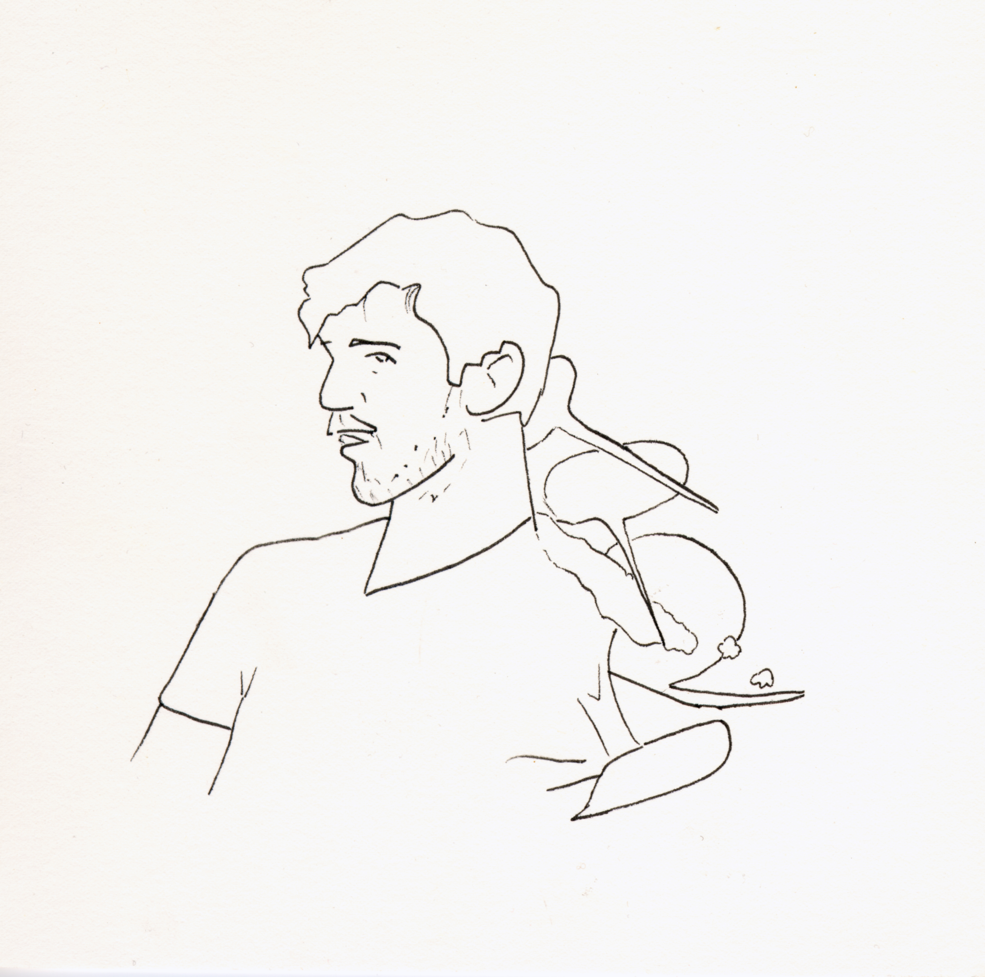 Drawing of the author; pen on paper.